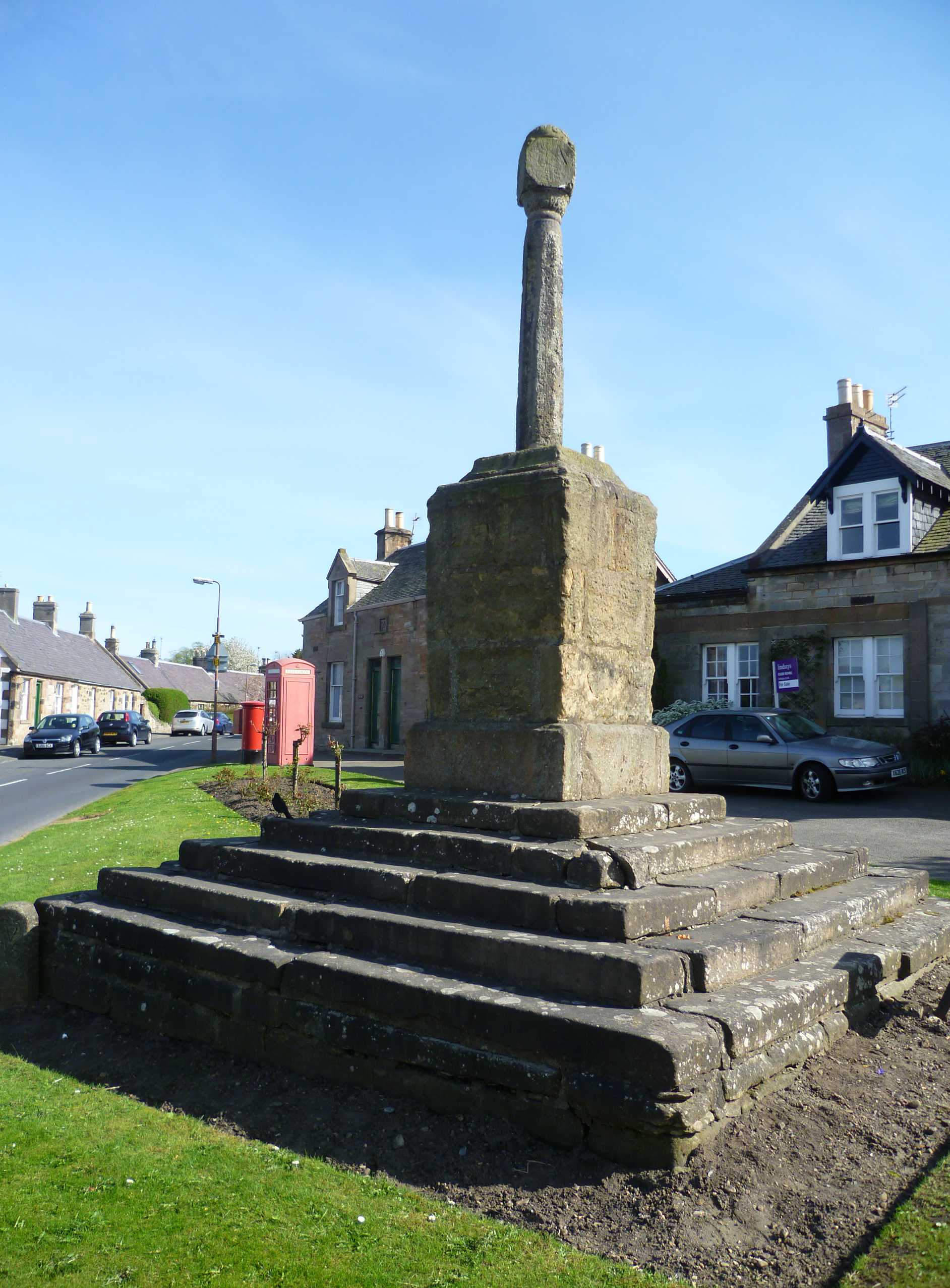 A mercat cross signifying a burgh of barony, i.e. burgh status granted by the local lord, including the right to hold a weekly market.